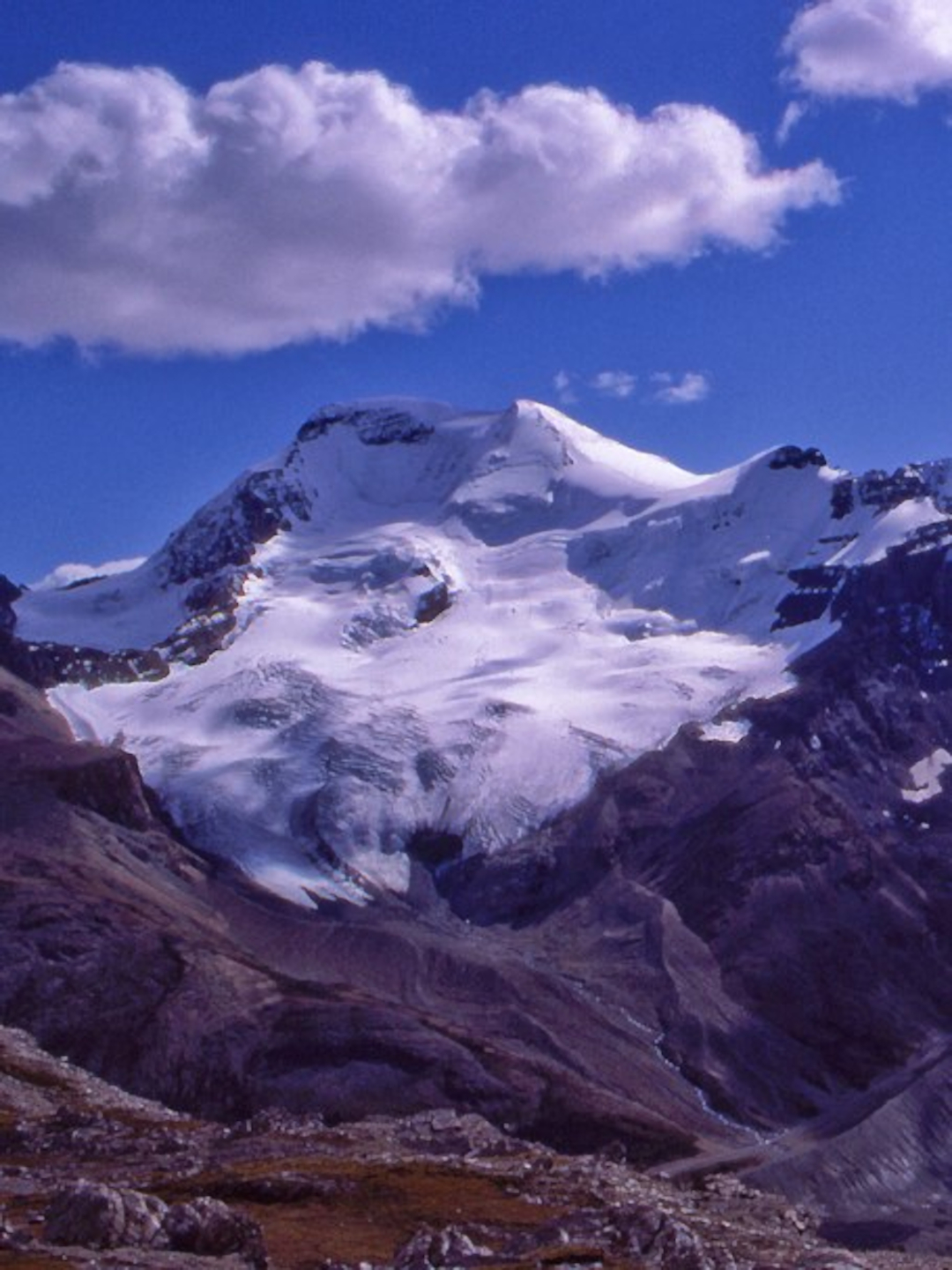 Mt. Athabasca as seen from Wilcox Pass near the base of Mt. Wilcox. The normal route is up the glacier in its middle and up to the col right of Silverhorn (in the bright sunlight), and around the backside of Silverhorn and thence on the ridge to the summit. The Silverhorn route leads directly up from its base, along the shadow/sun line to Silverhorn's summit. As the Climber's Guide notes: "A magnificent peak 4 km SW of Sunwapta Pass, from which the 1898 party discovered the Columbia Icefield. Justly popular and very accessible, it is probably the most-climbed major peak in the Canadian Rockies."[1]